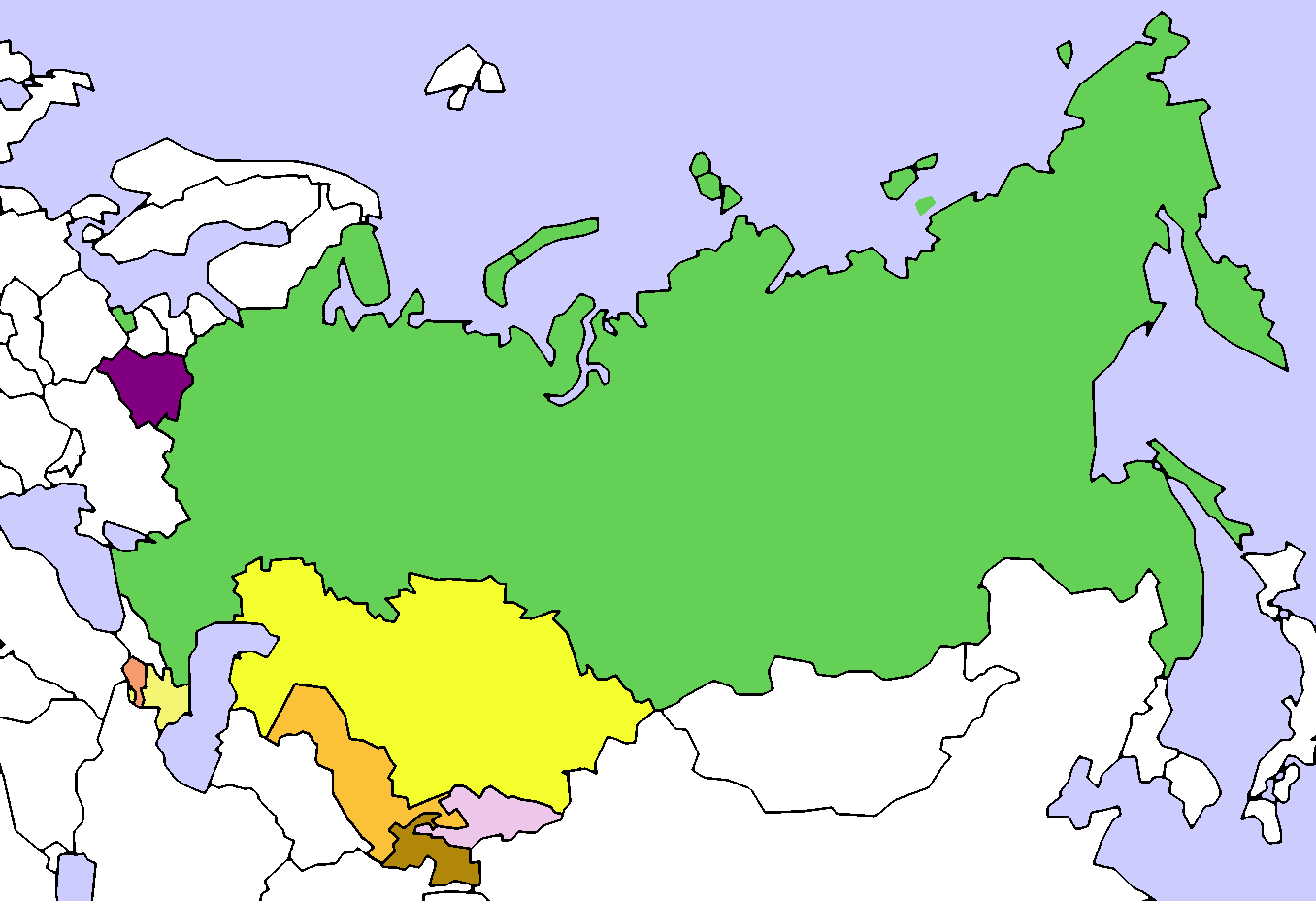 Map of the Commonwealth of Independent States (CIS). Created by User:Aris Katsaris, based on Image:Soviet Union Map.png